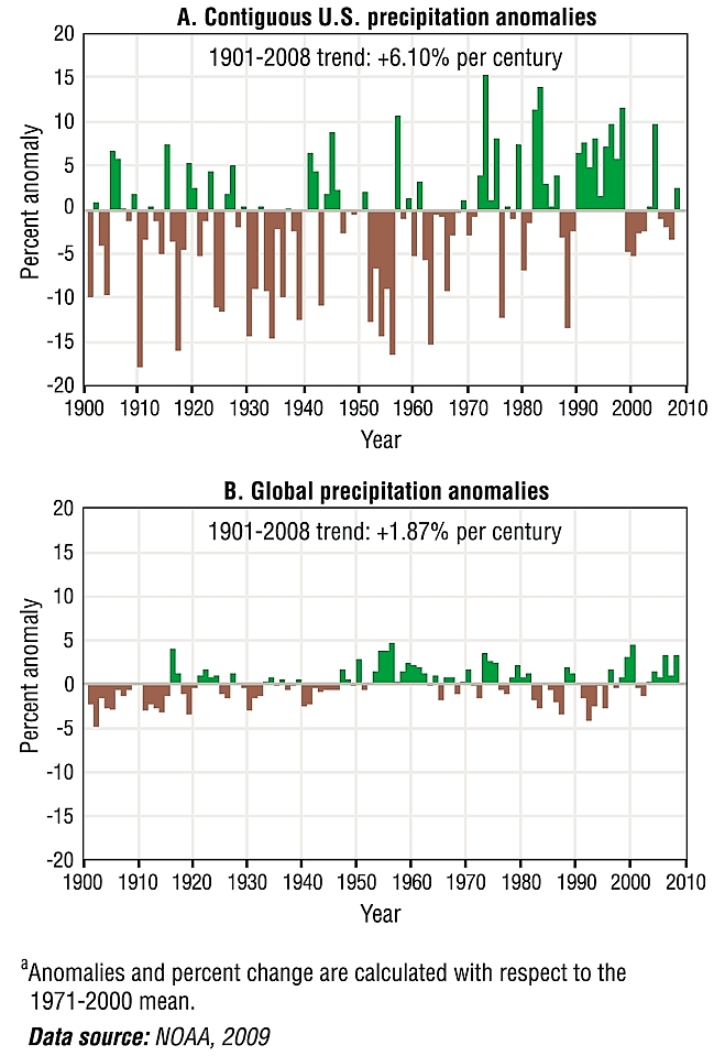 Precipitation over the 20th century and up through 2008 during global warming, NOAA data presented by U.S. EPA, an estimated trend of 1.87% global precipitation increase per century observed over that period.